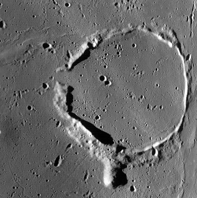 Lunar crater Kies. Part of LROC image WAC M117650050ME (unofficial, manually stacked by - JohnMoore2 - note the almost linear slump-line (fault?) just inside the northern rim).